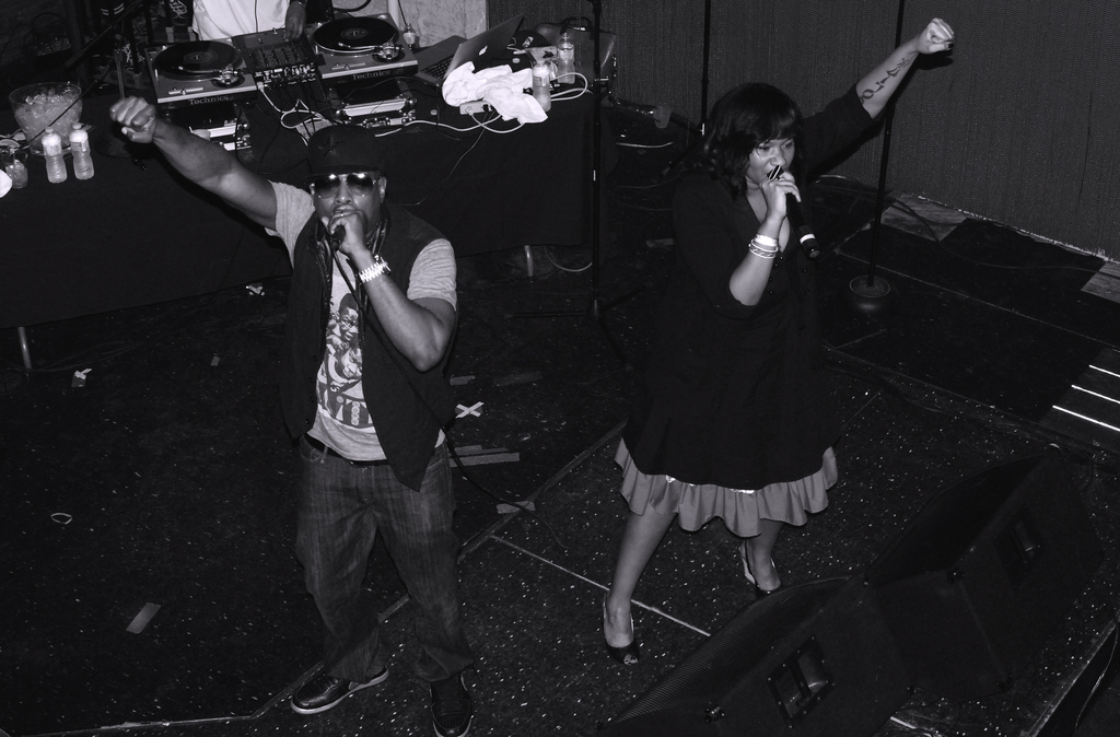 South by Southwest 2010.